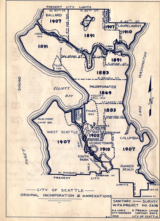 Early annexations to Seattle, Washington.